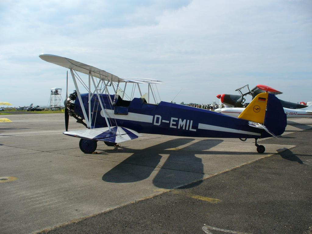 Focke-Wulf Fw 44 Stieglitz, pre-war German trainer aircraft